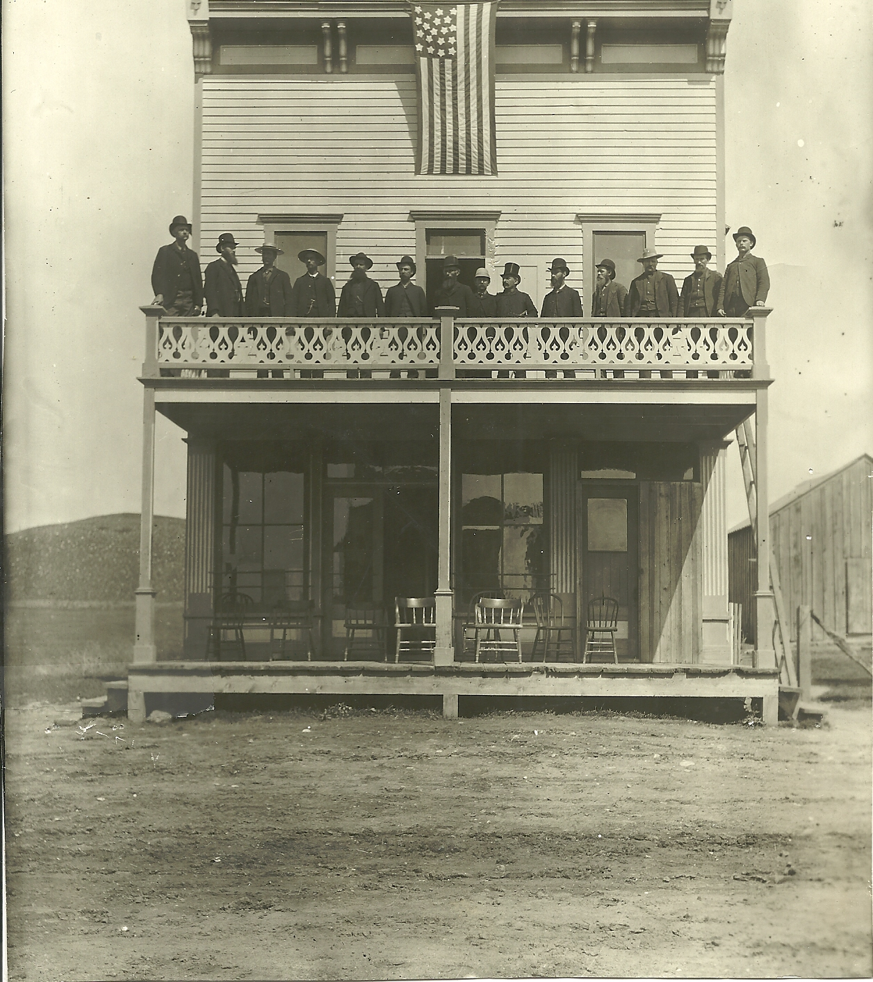 The fourteen founders of Minnesela, South Dakota, standing on the balcony of the Minnesela Hotel in 1889. It's the only building left standing in the town and has been converted into a private ranch home.